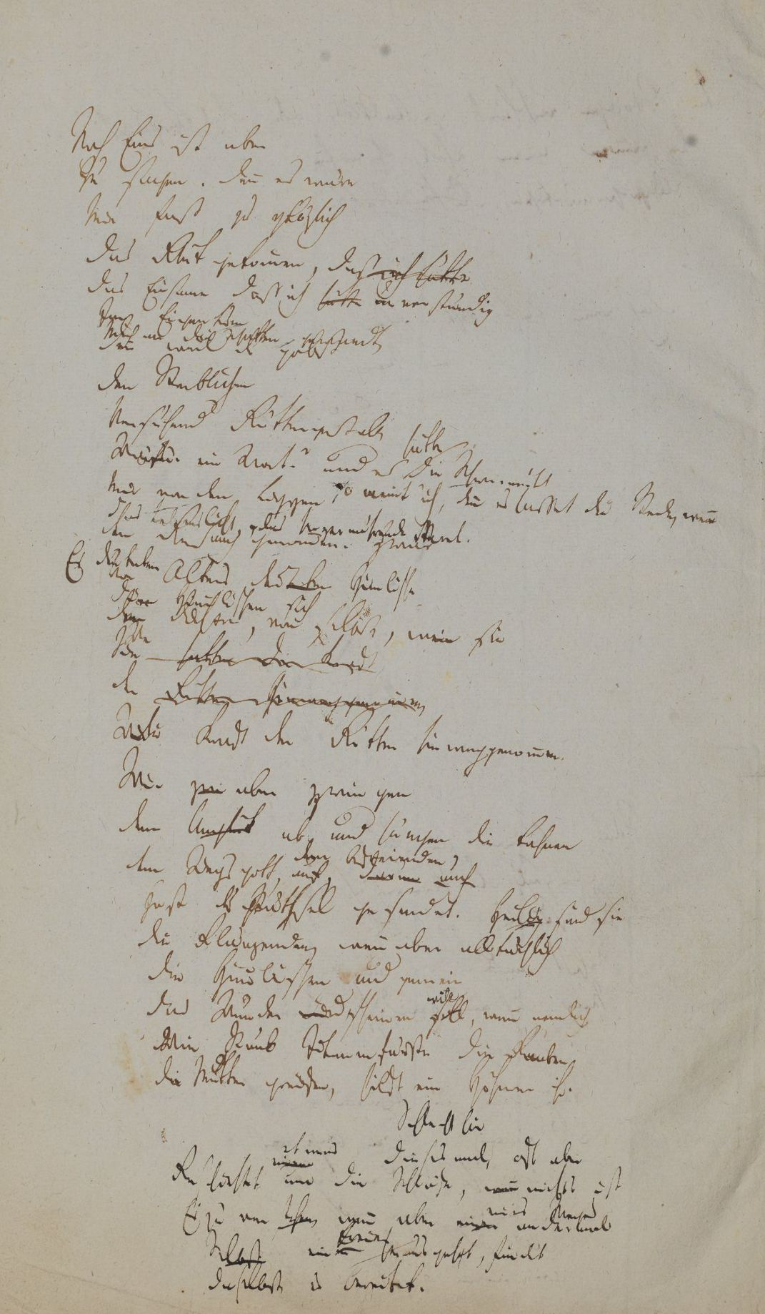 Manuscript by Friedrich Hölderlin "An die Madonna" page 8